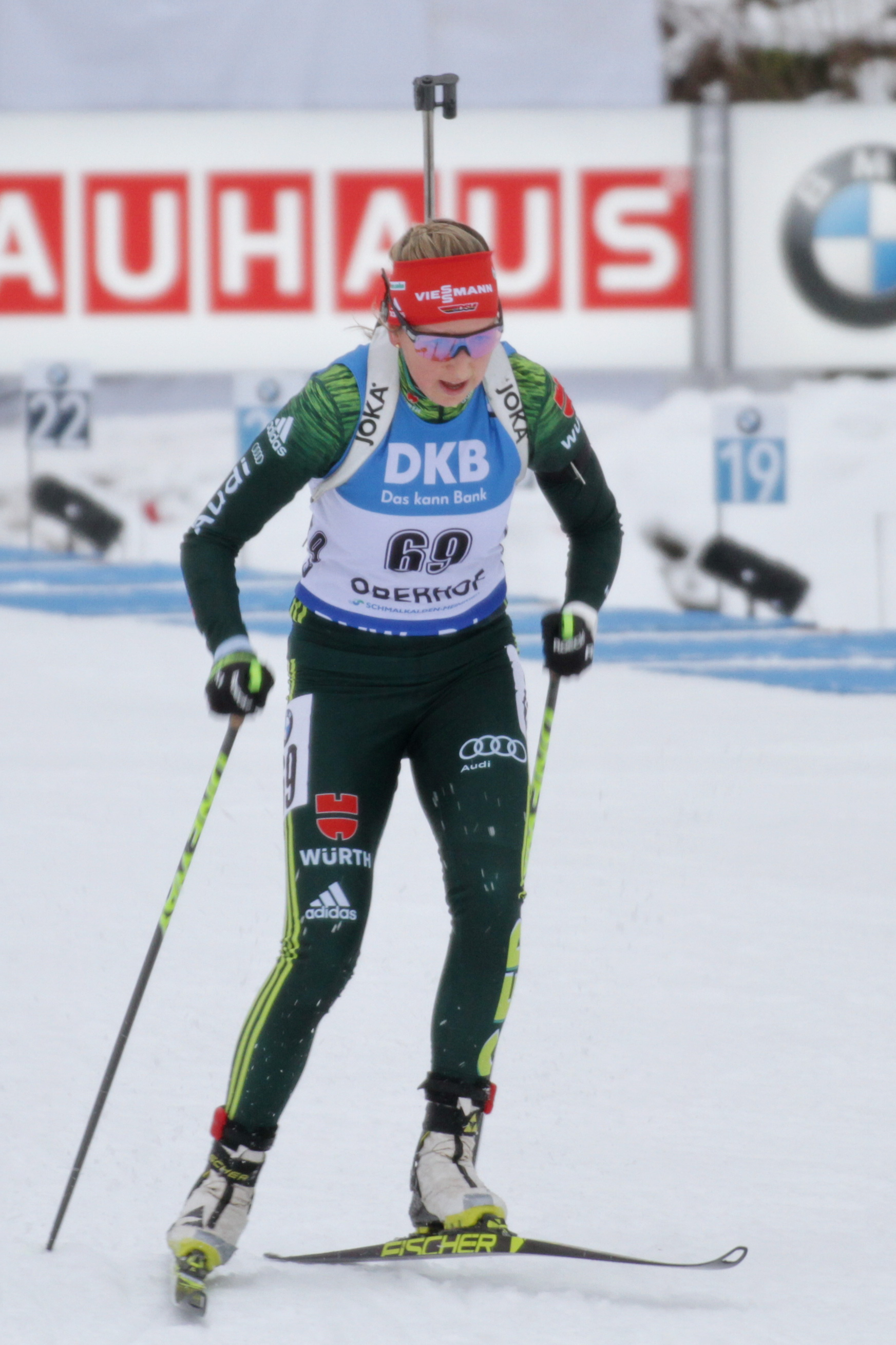 2018 Oberhof Biathlon World Cup - Sprint Women